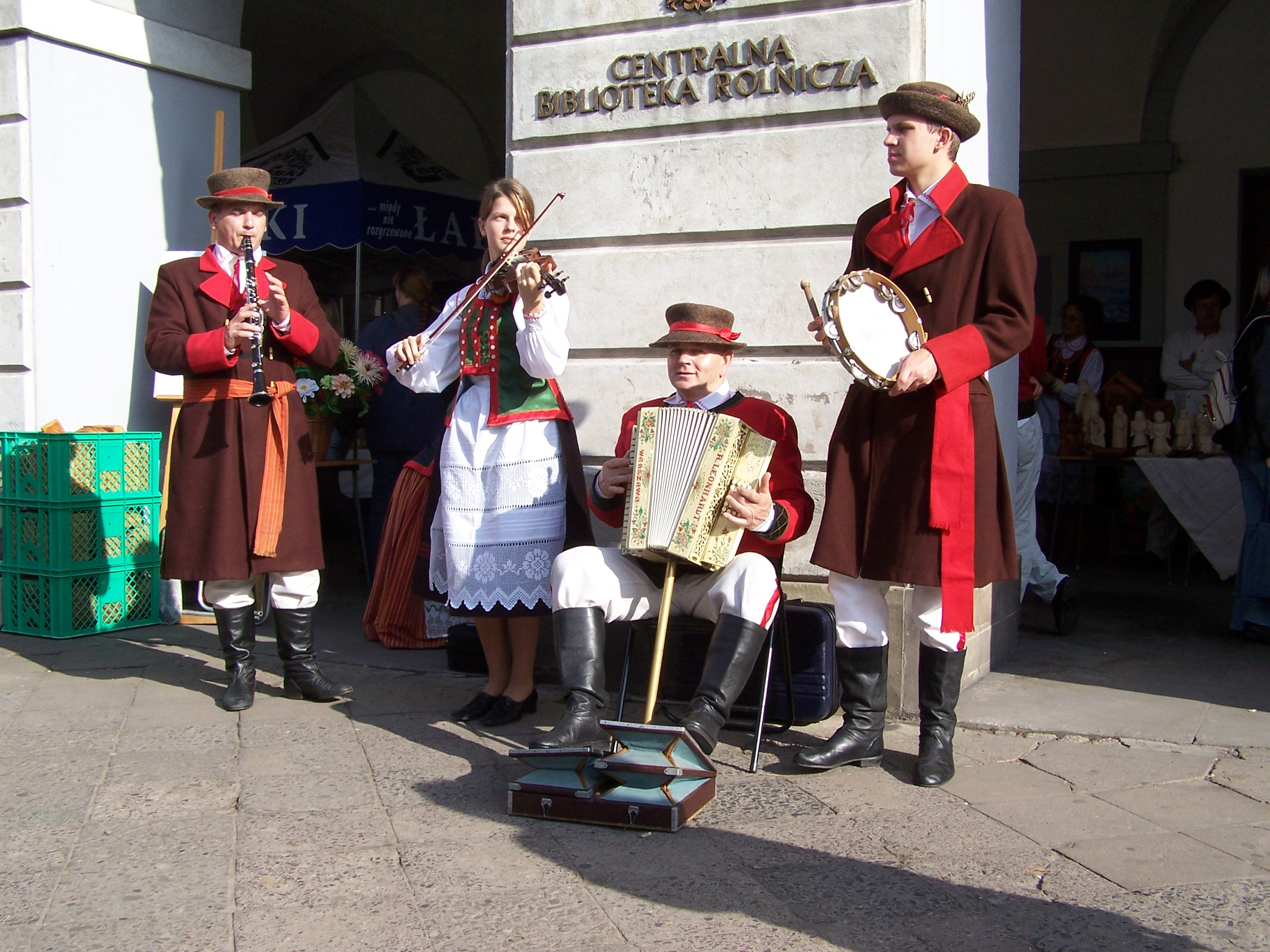 Kurp folk group from Kadzidło, Poland